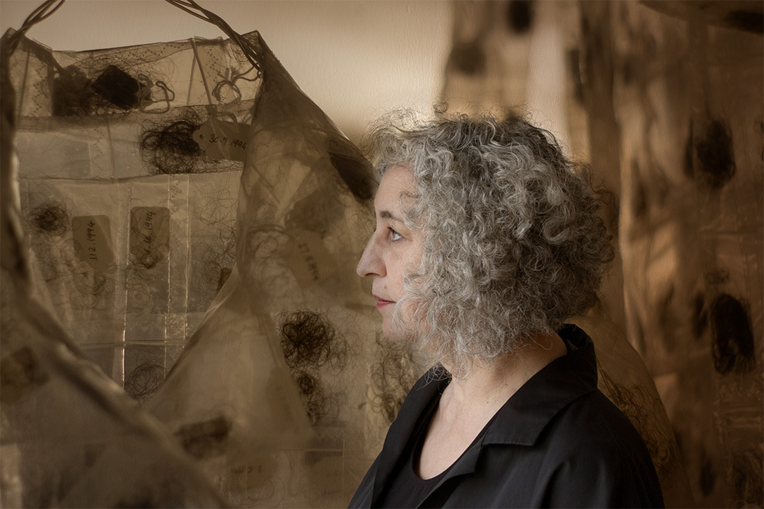 The britsh/german artist Tanya Ury at the “EL-DE-Haus” (Cologne), in front of her Installation “Hair Shirt Army”.